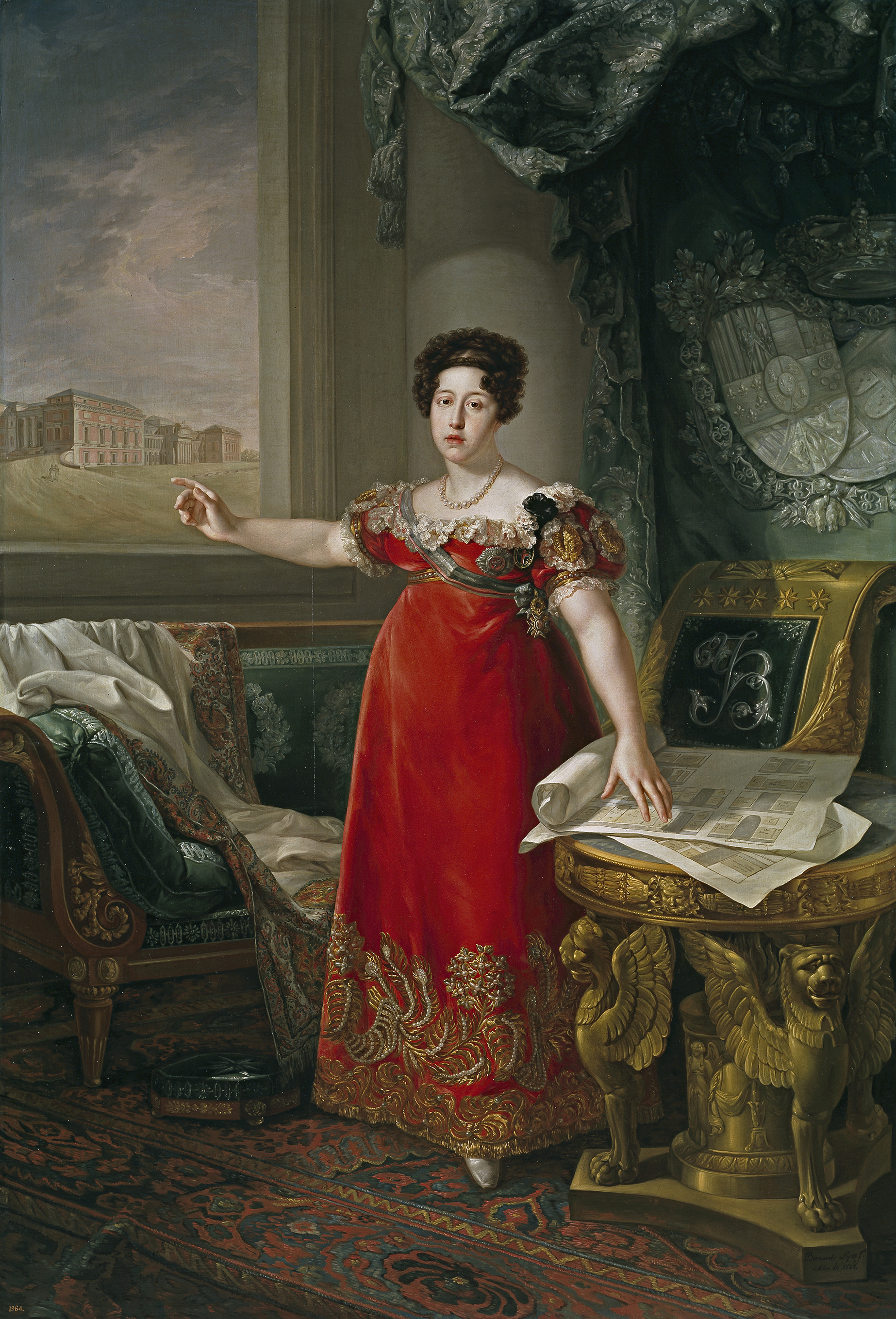 Maria Isabel of Portugal (1797-1818), in front of the Prado Museum.